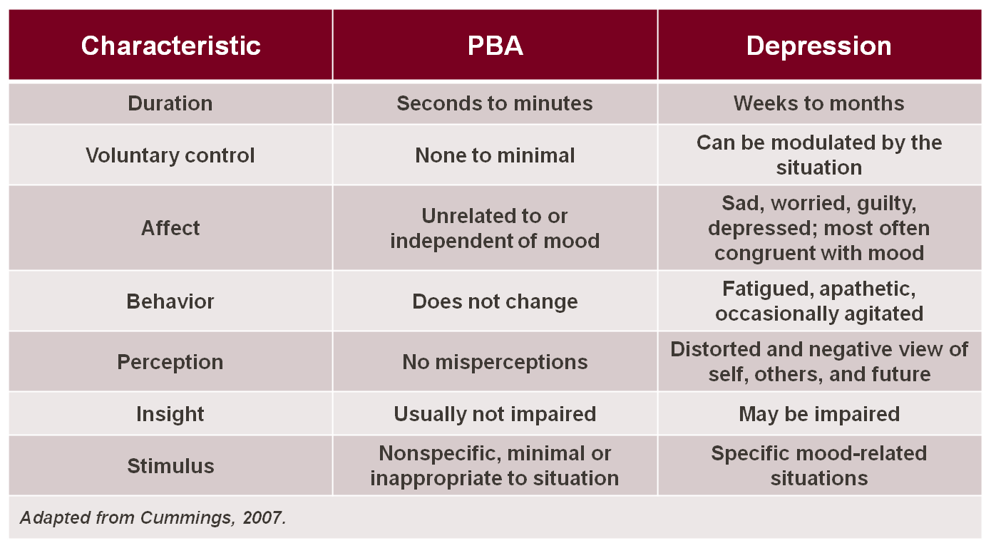 Several criteria exist that may help differentiate between the two disorders in a person/patient displaying episodes of weeping